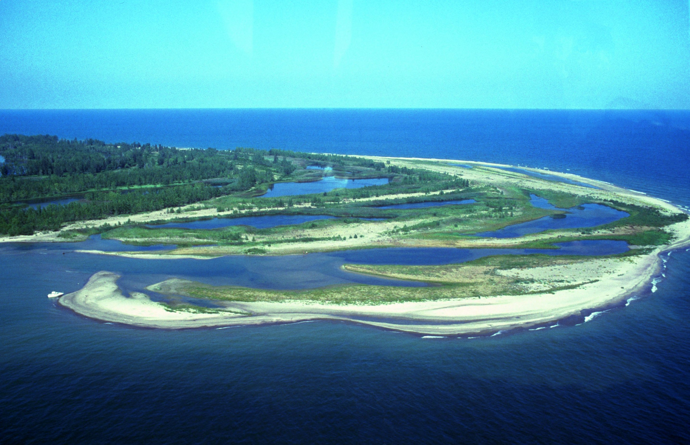 Aerial view of Presque Isle State Park, Erie, Pennsylvania. The photo is taken from the northeast and shows Gull Point in the foreground. Photo has some problems because of scanning.